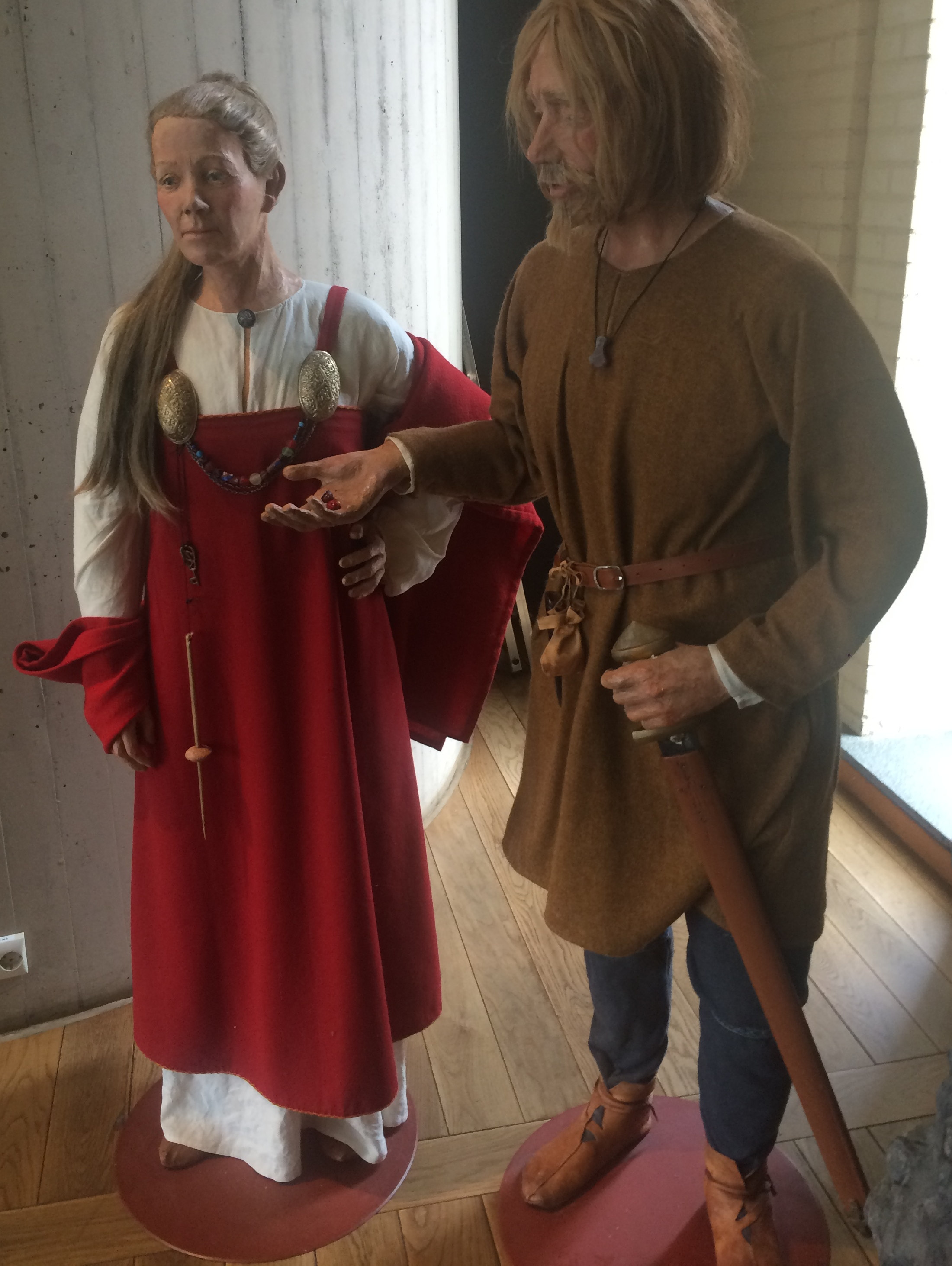 Reconstructed Vikings costume on display at Archaeological Museum in Stavanger, Norway. The woman is wearing a white underdress, a red hangerock or smokkr, and brooches.